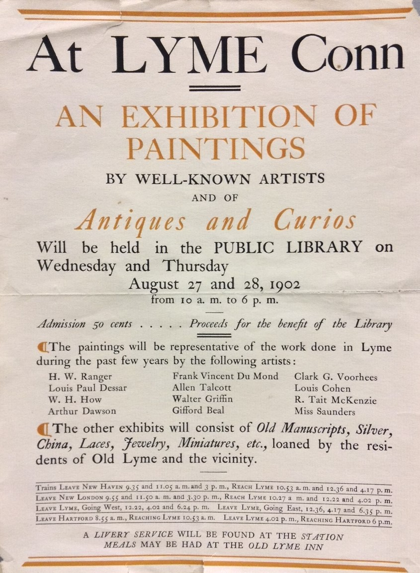 Announcement of the 1902 Lyme Art Association exhibition at Phoebe Griffin Noyes Library